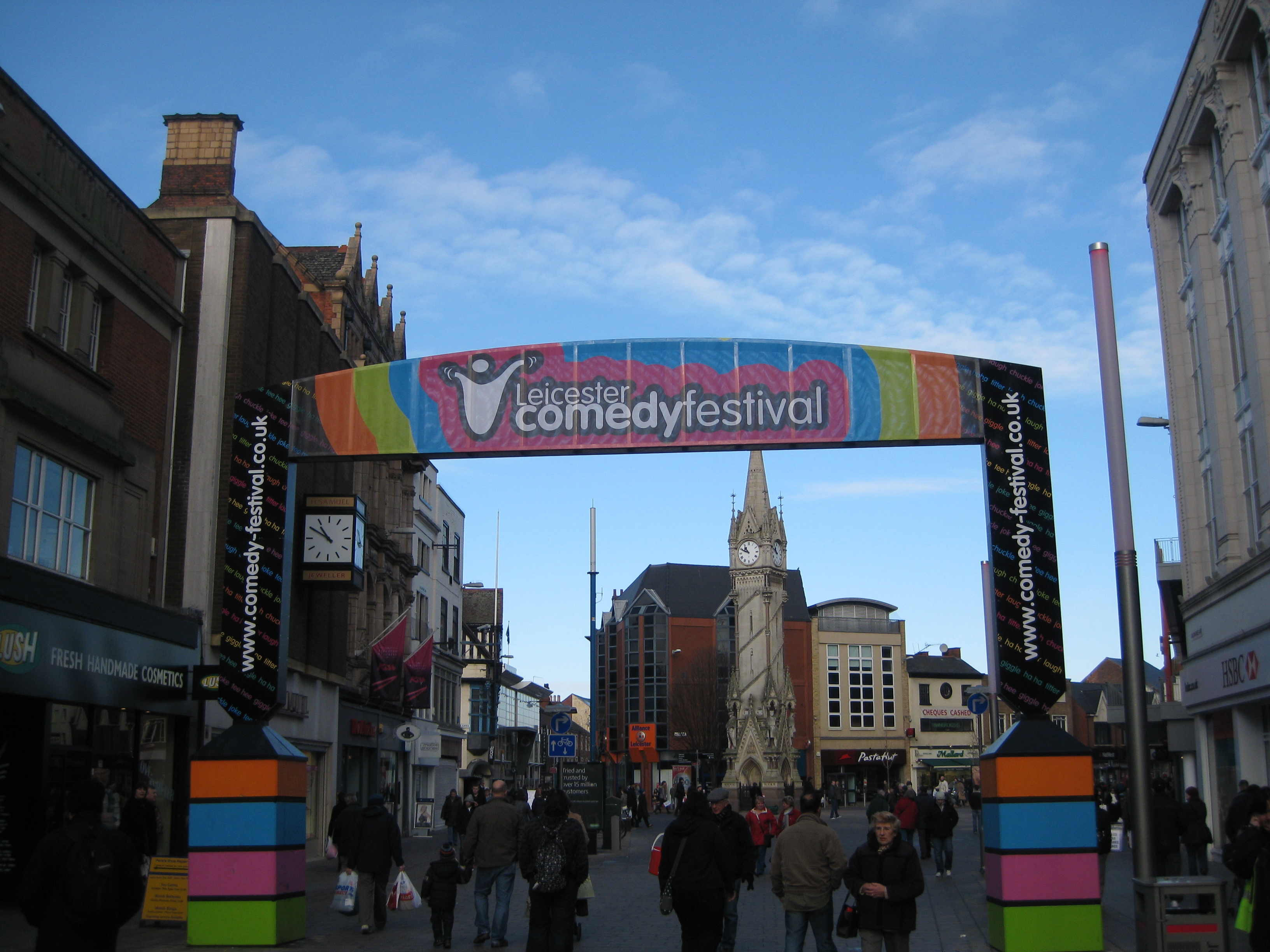 Street scene with promotional banner for the Leicester Comedy Festival